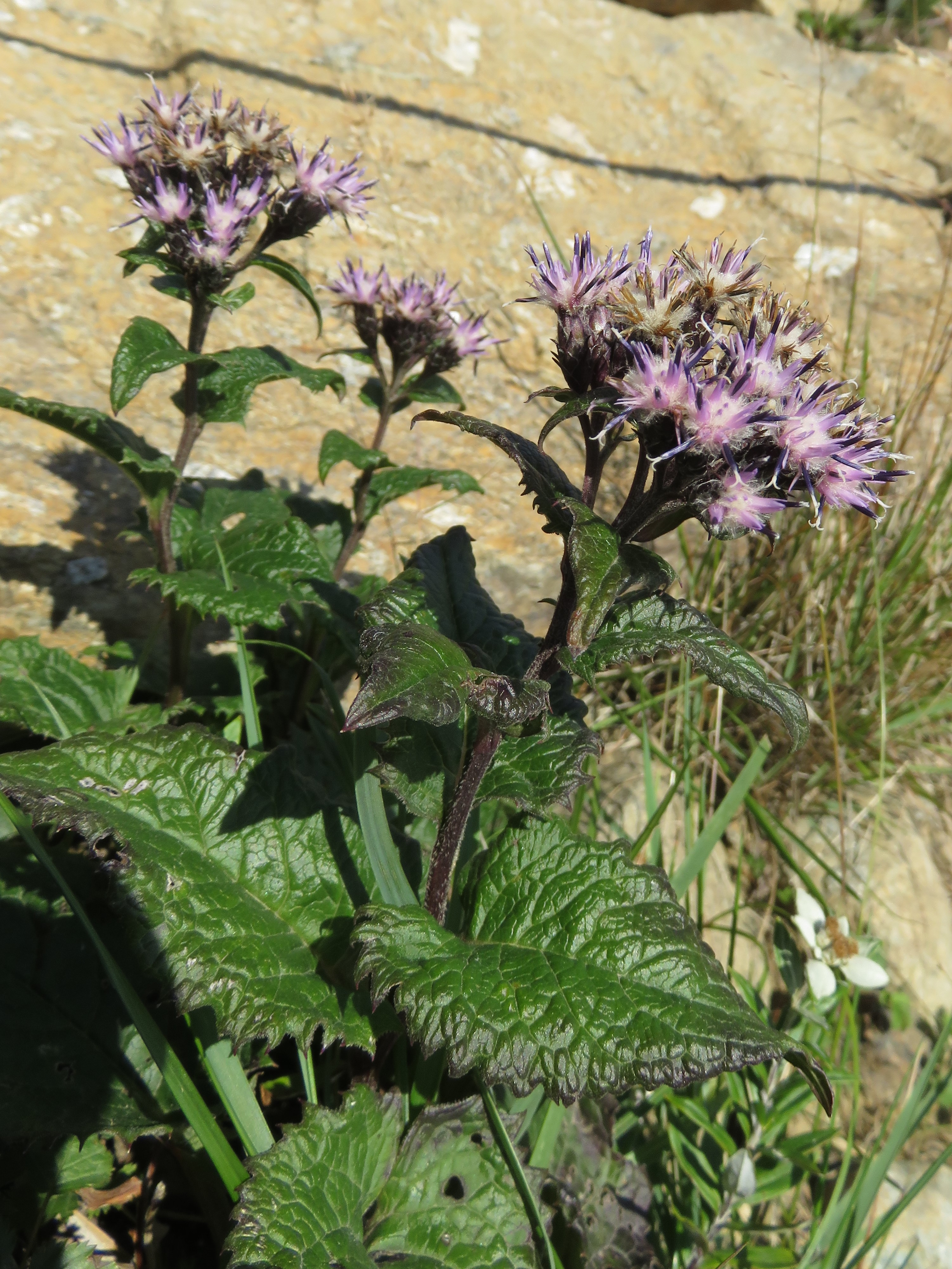 Saussurea riederi subsp. yezoensis, Mount Hayachine, Iwate pref., Japan